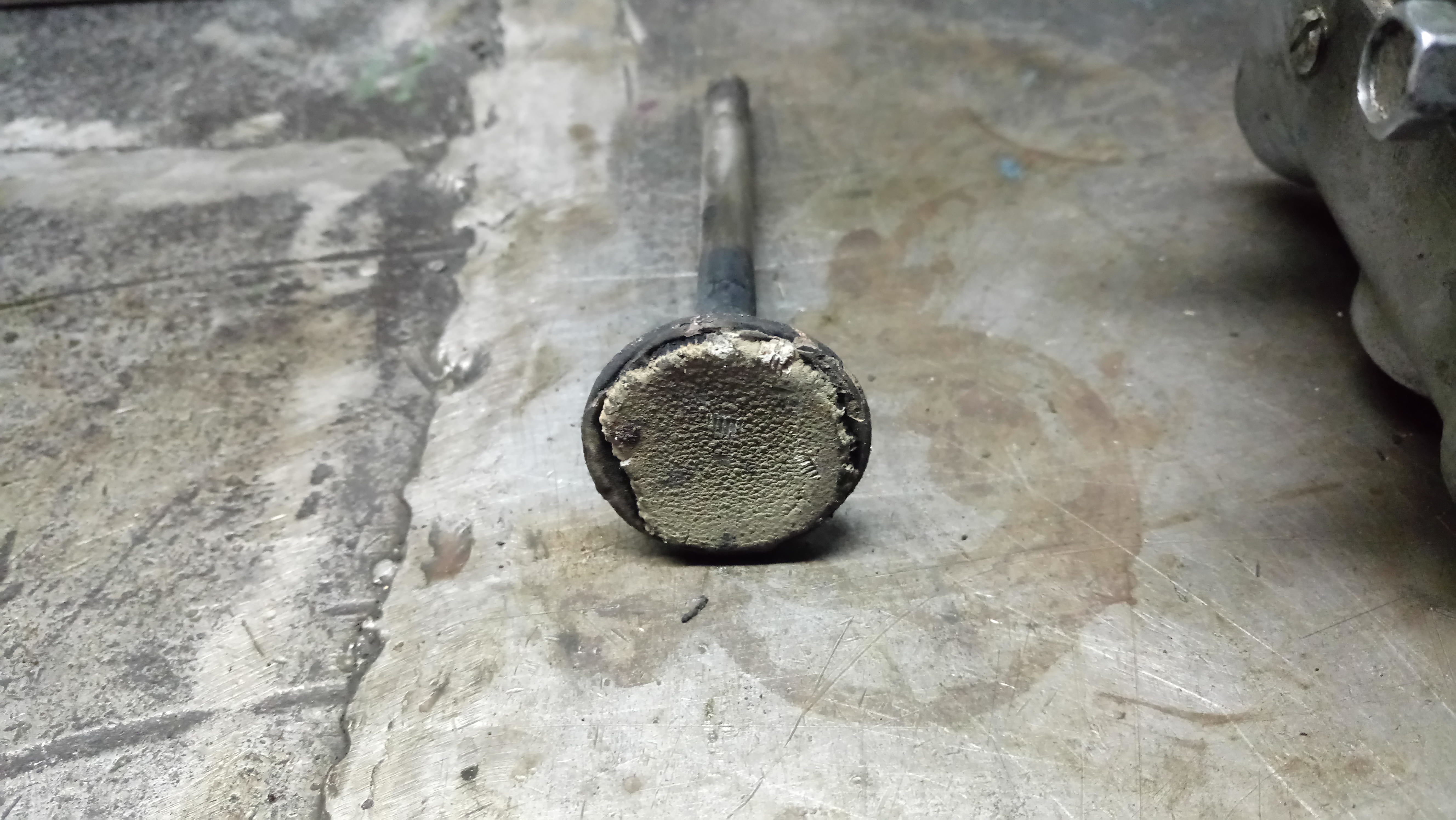 Dense gray buildup on an exhaust valve of a Volga M-21 engine (built 1961, first repair since then).